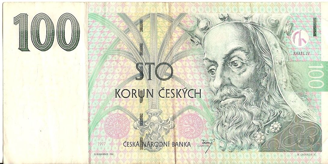 100 Czech korunas